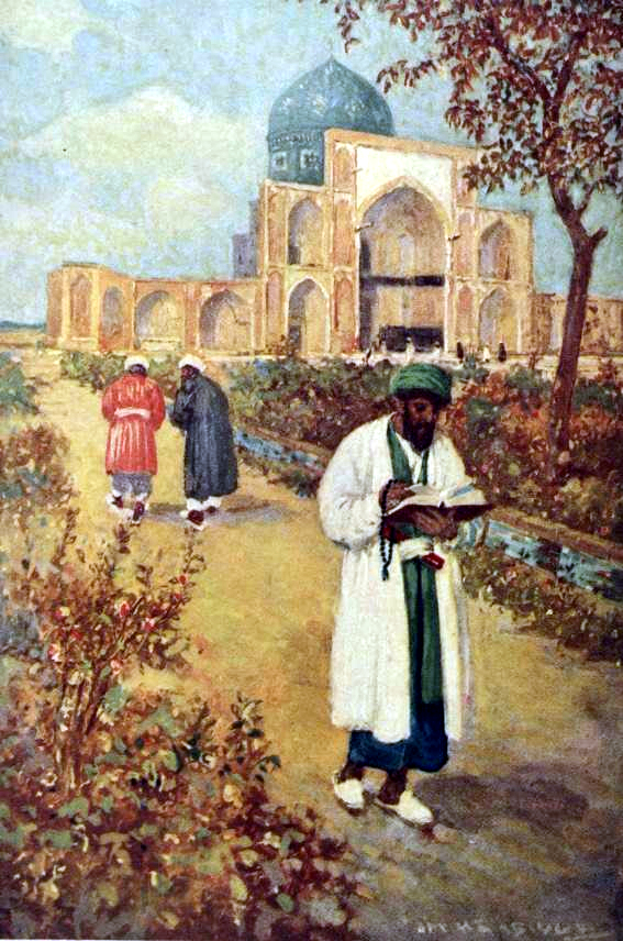 "At the Tomb of Omar Khayyám"